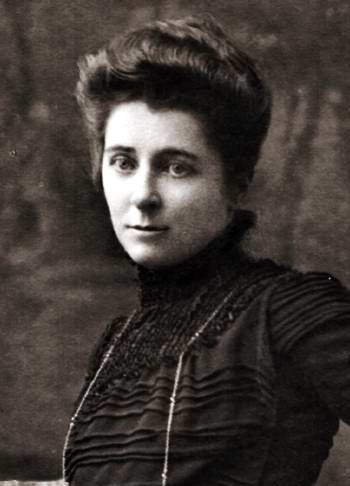 Caroline Fitzgerald (1865–1911), poet. Archive of the heirs of Caroline Fitzgerald and Filippo De Filippi.. Plate 28 of source.